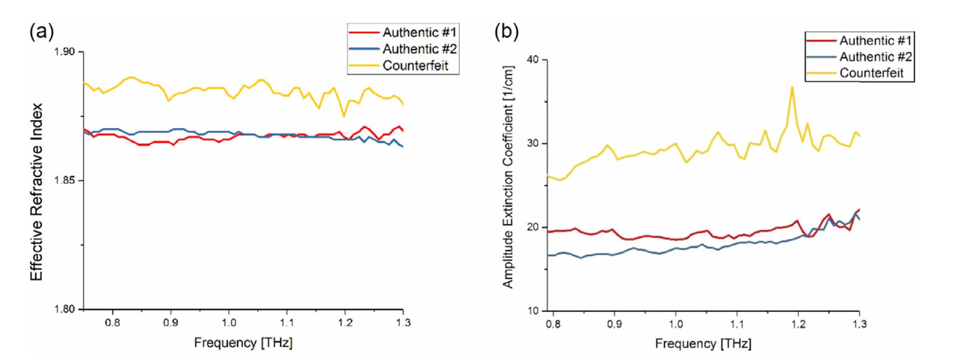 (a) effective refractive indexes and (b) absorption coefficients of the electronic chips.